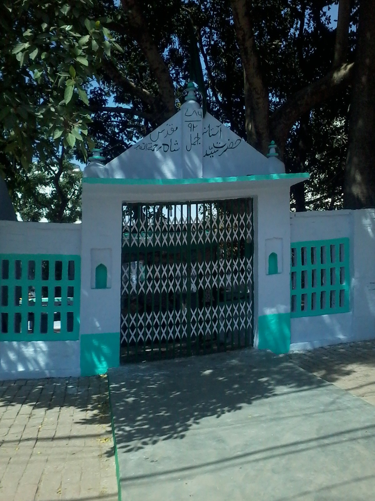 Hazrat Qaazi Syed Abdul Malik almarof Syed Ajmal Shah Bahraichi